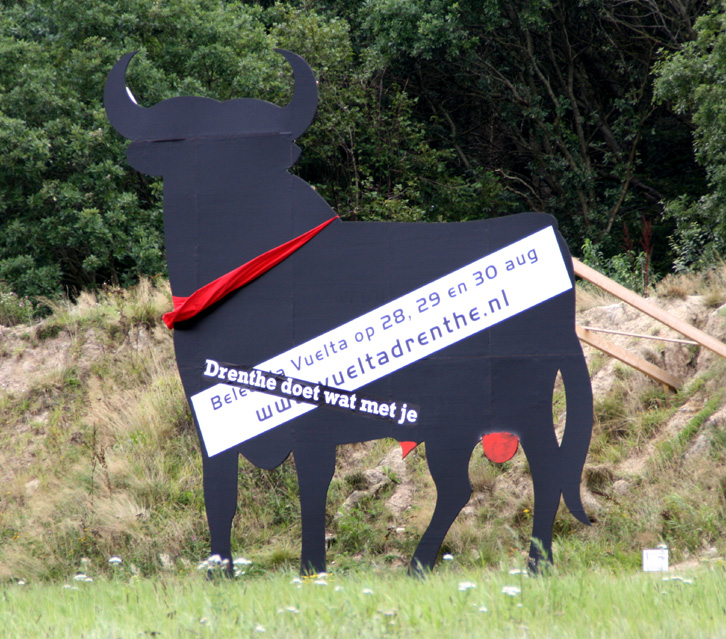 2009 Vuelta a España, Bull roundabout Gieten (Drenthe)